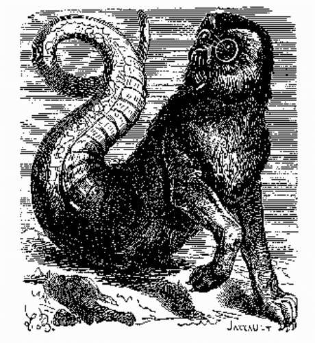 The demon Aamon. This picture was originally drawn in 1863 for an edition of the Dictionnaire Infernal. The digital version was taken from this site.